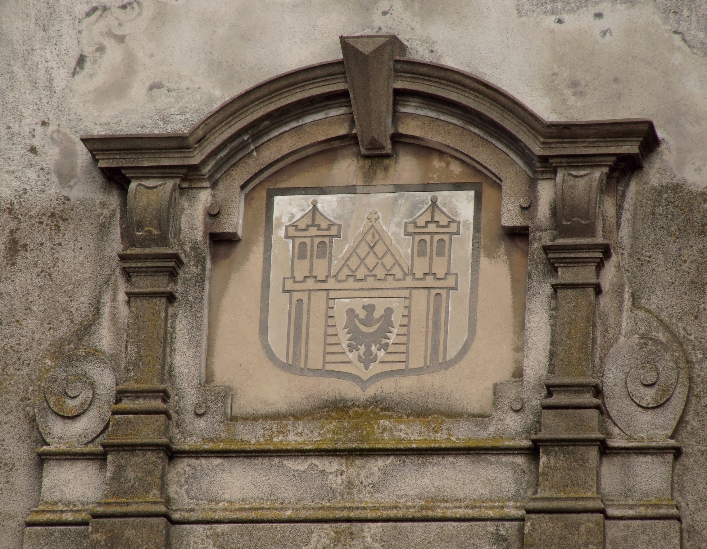 Coats of arms (Świebodzin) Author: Mohylek 17:57, 8 March 2007 (UTC)